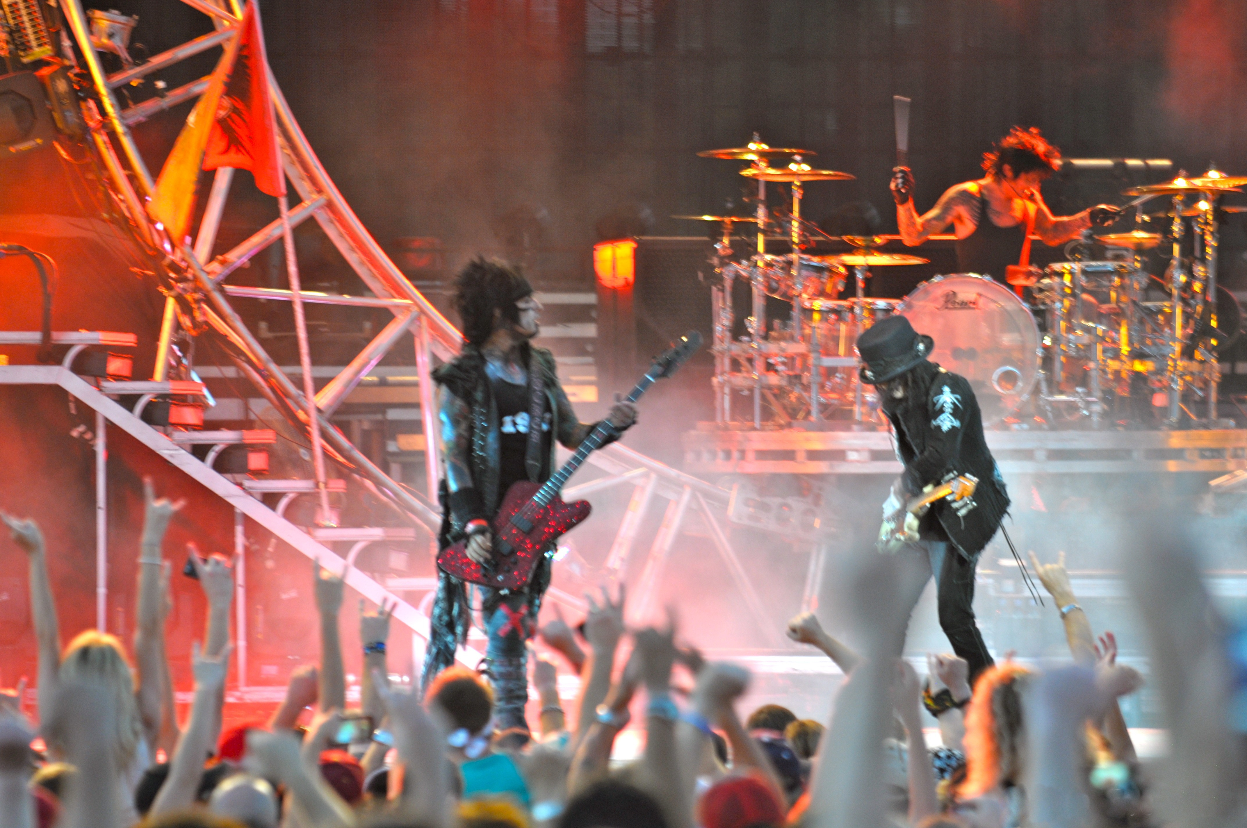 Motley Crue -DSC_1312- 8.29.12